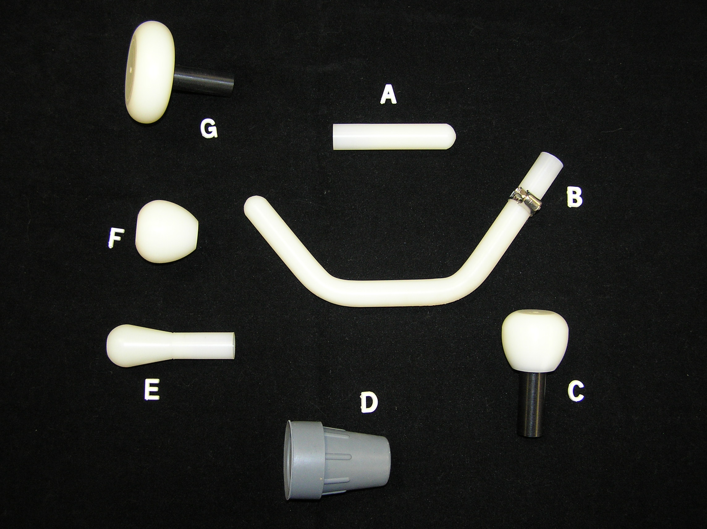 An assortment of cane tips: A = Pencil Tip B = Bundu Basher Tip (used in heavy bush environments) C = Ball Race Overfit Tip D = Rubber Support Cane Tip E = Pear Tip F = Rural Tip G = Jumbo Roller Tip